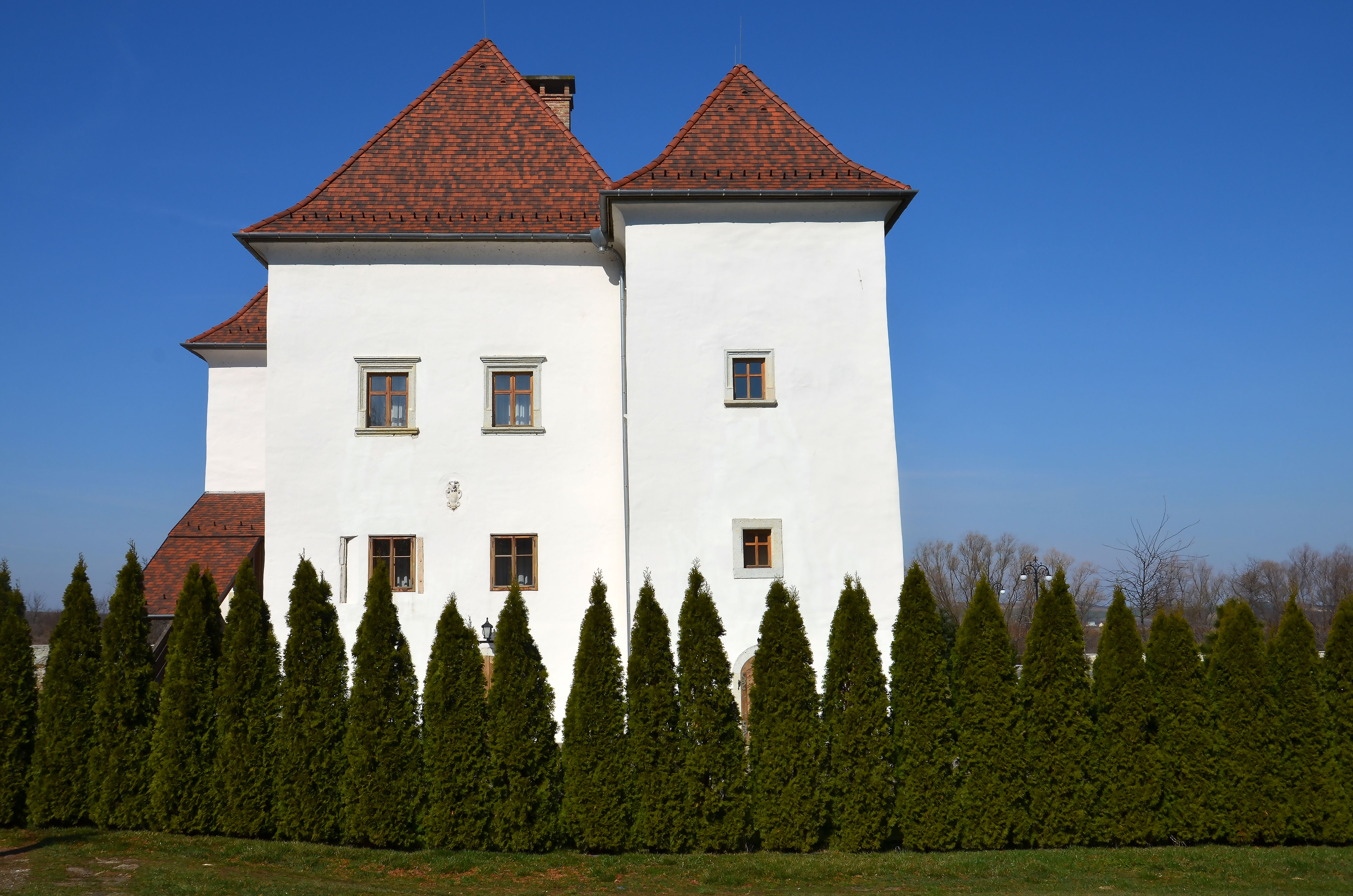 The Vay Mansions in Golop, Hungary